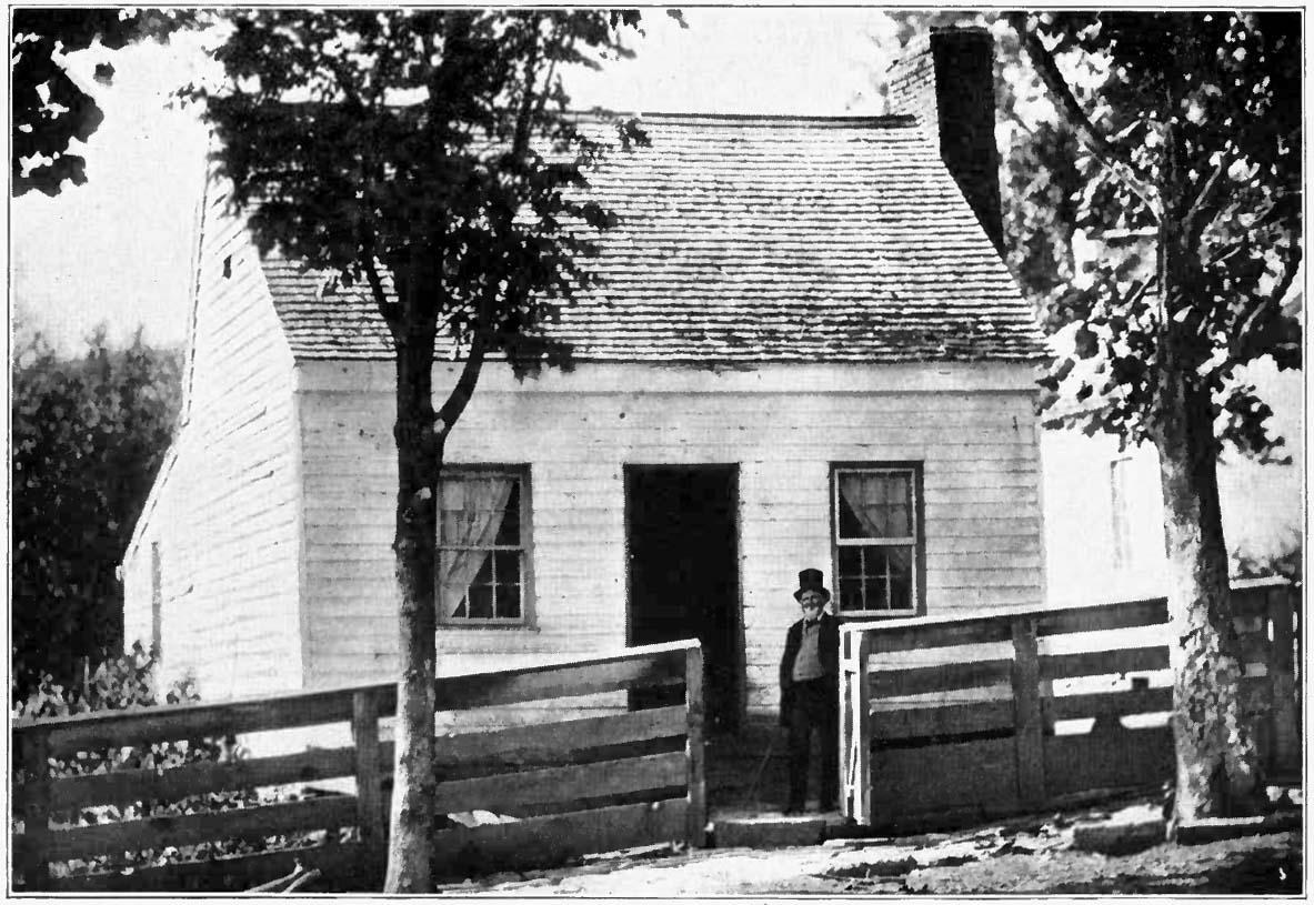 Photograph of the birthplace of President of the United States Ulysses S. Grant in Point Pleasant, Ohio